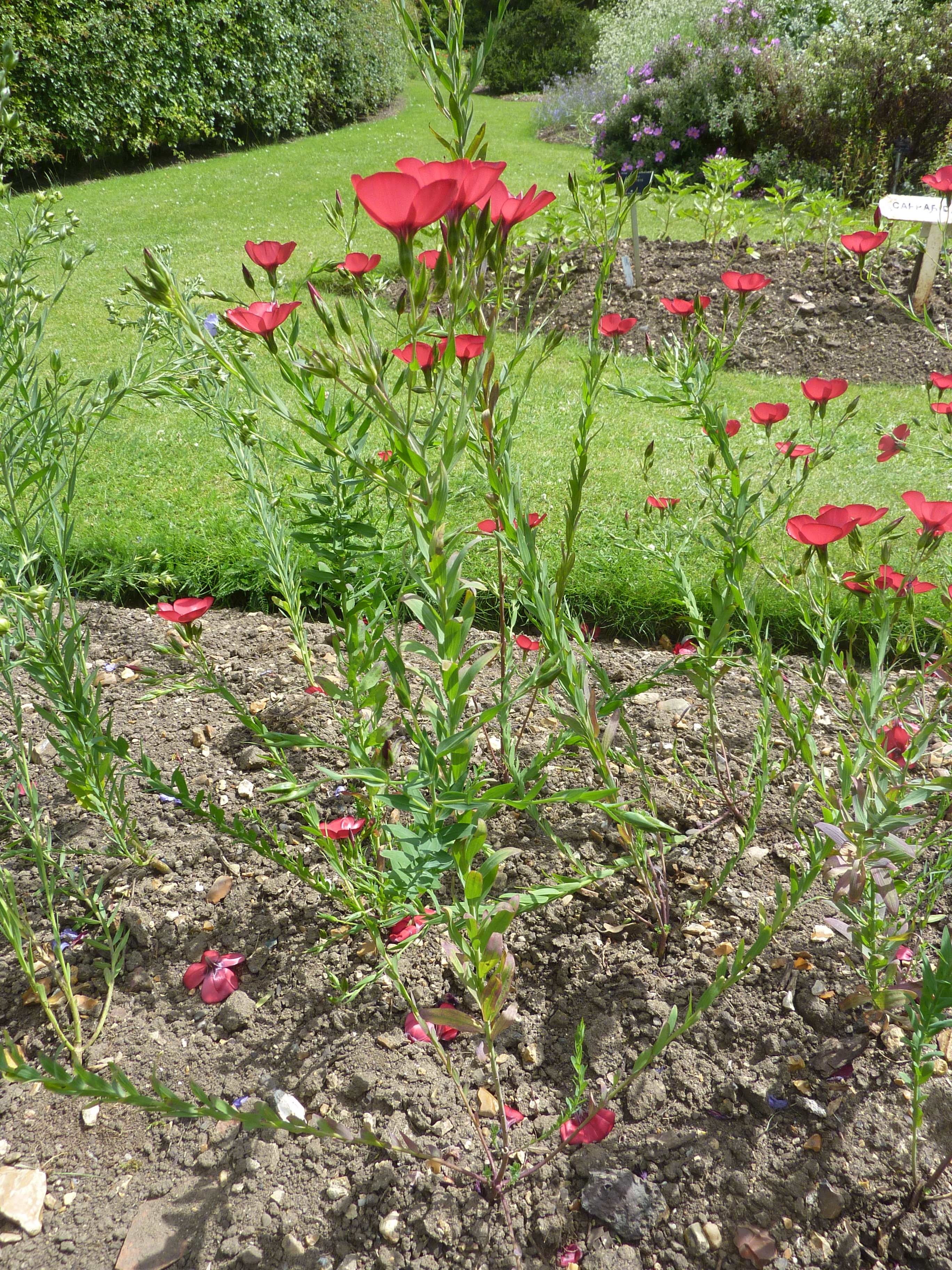 Taken in the Cambridge University Botanic Garden